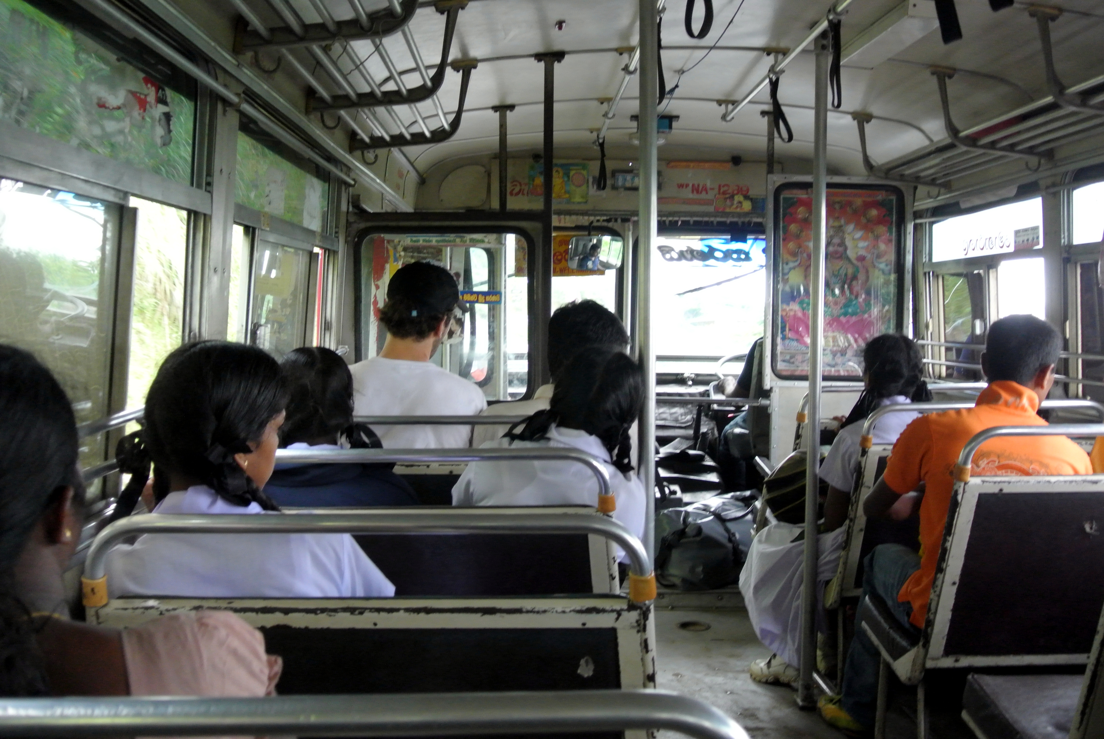 On a bus in Sri Lanka (Badulla district)